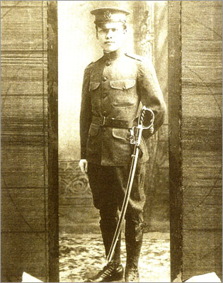 Bak Yong-man in military uniforms, 1910